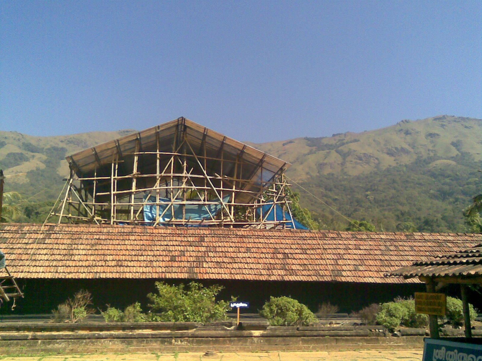 Side view of Thirunelli temple, which lies on the valley of Brahmagiri hills, amid dense forest.